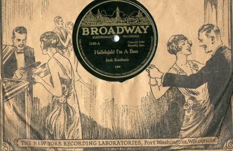 A record sleeve of Broaday Records